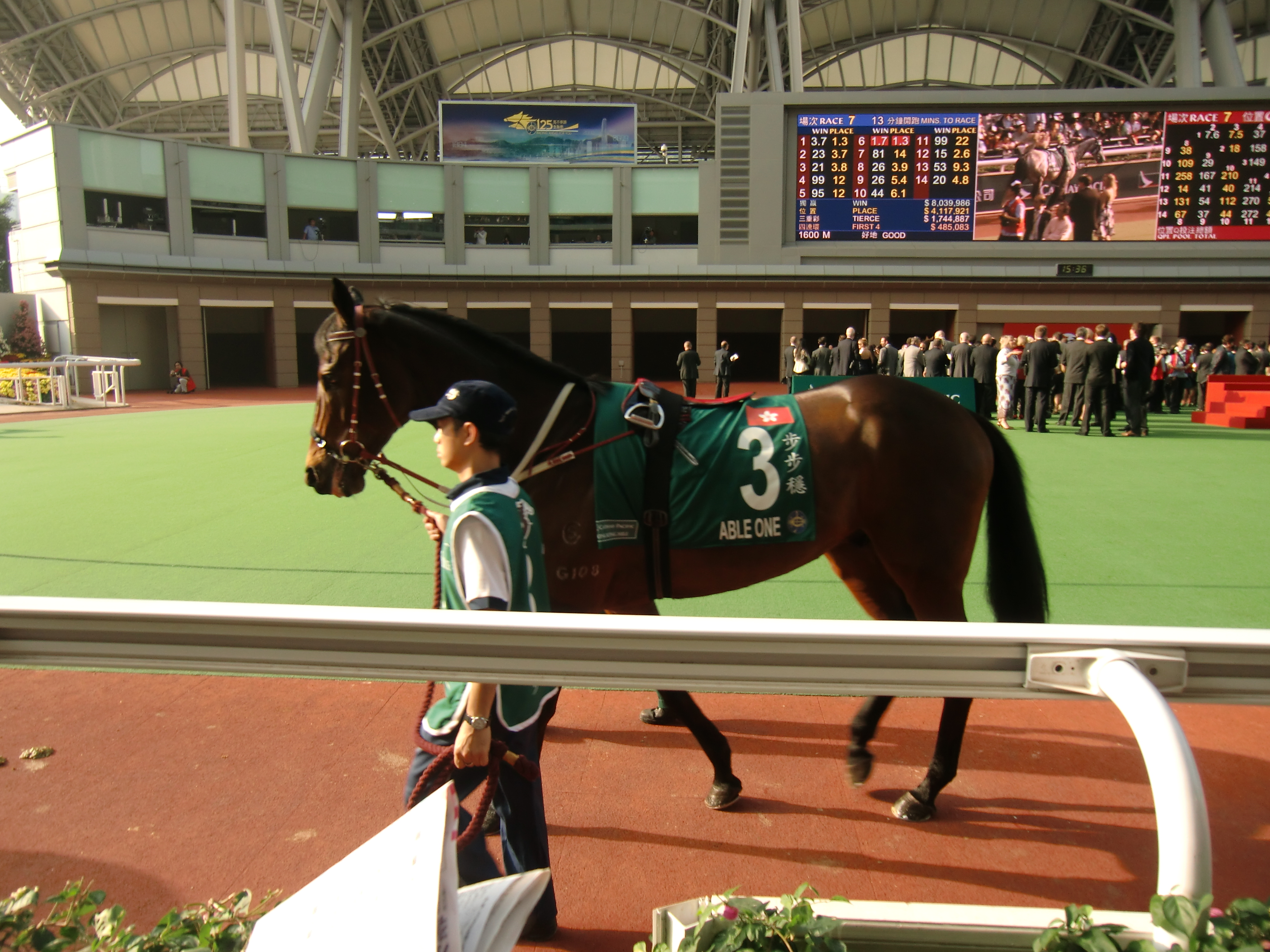 Able One is two times Champions Mile winner.